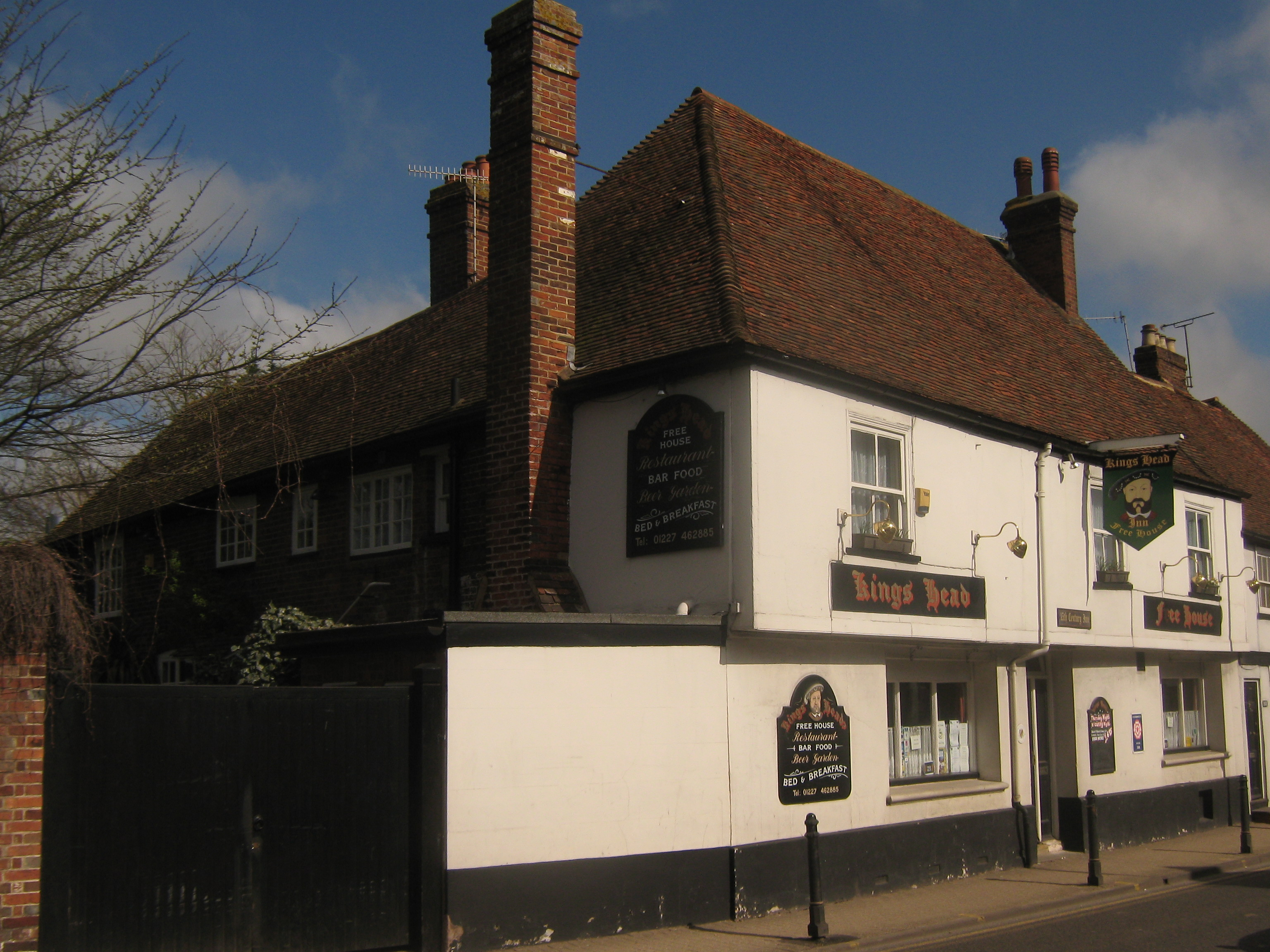 The King's Head Public House, Canterbury On the A28 Wincheap Road.